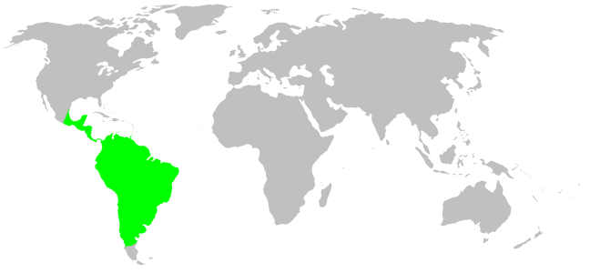 Senoculidae habitat distribution, drawn after Platnick: World Spider Catalog 7.0. This is not at all a precise rendering of the distribution! If you have better information, please replace this map, or send me the info, and i will redraw it.